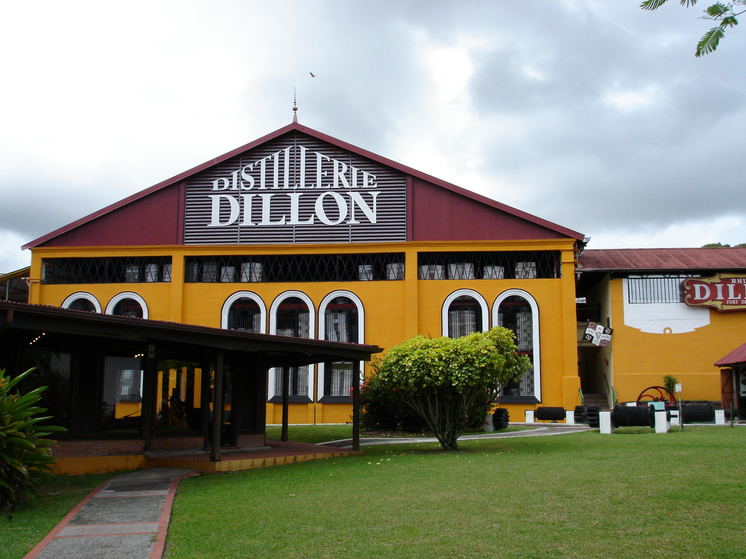 Dillon's distellery (Fort-de-France, Martinique)